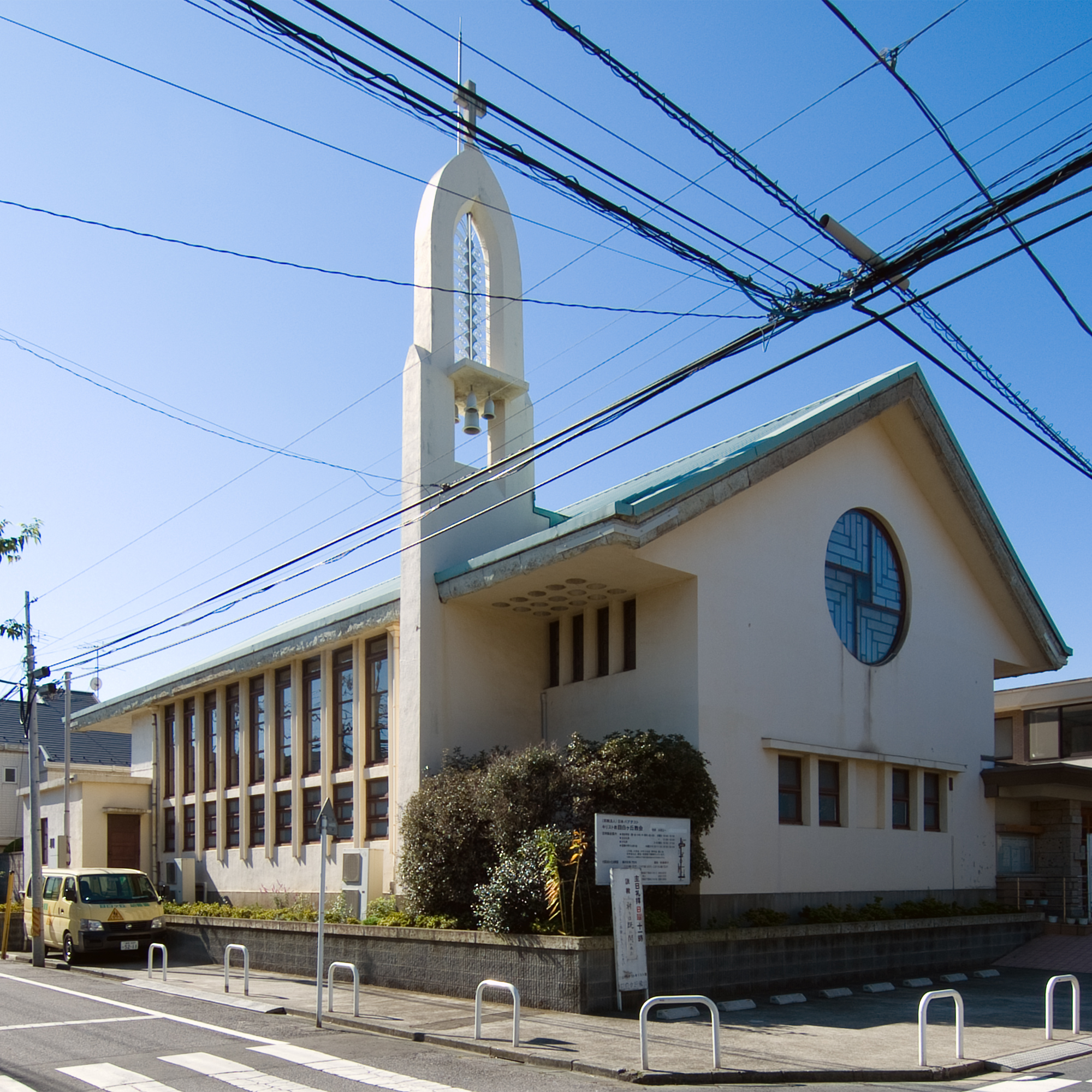 Mejiro-ga-oka Church, at Mejiro Tokyo Japan, design by Arata Endo in 1950.